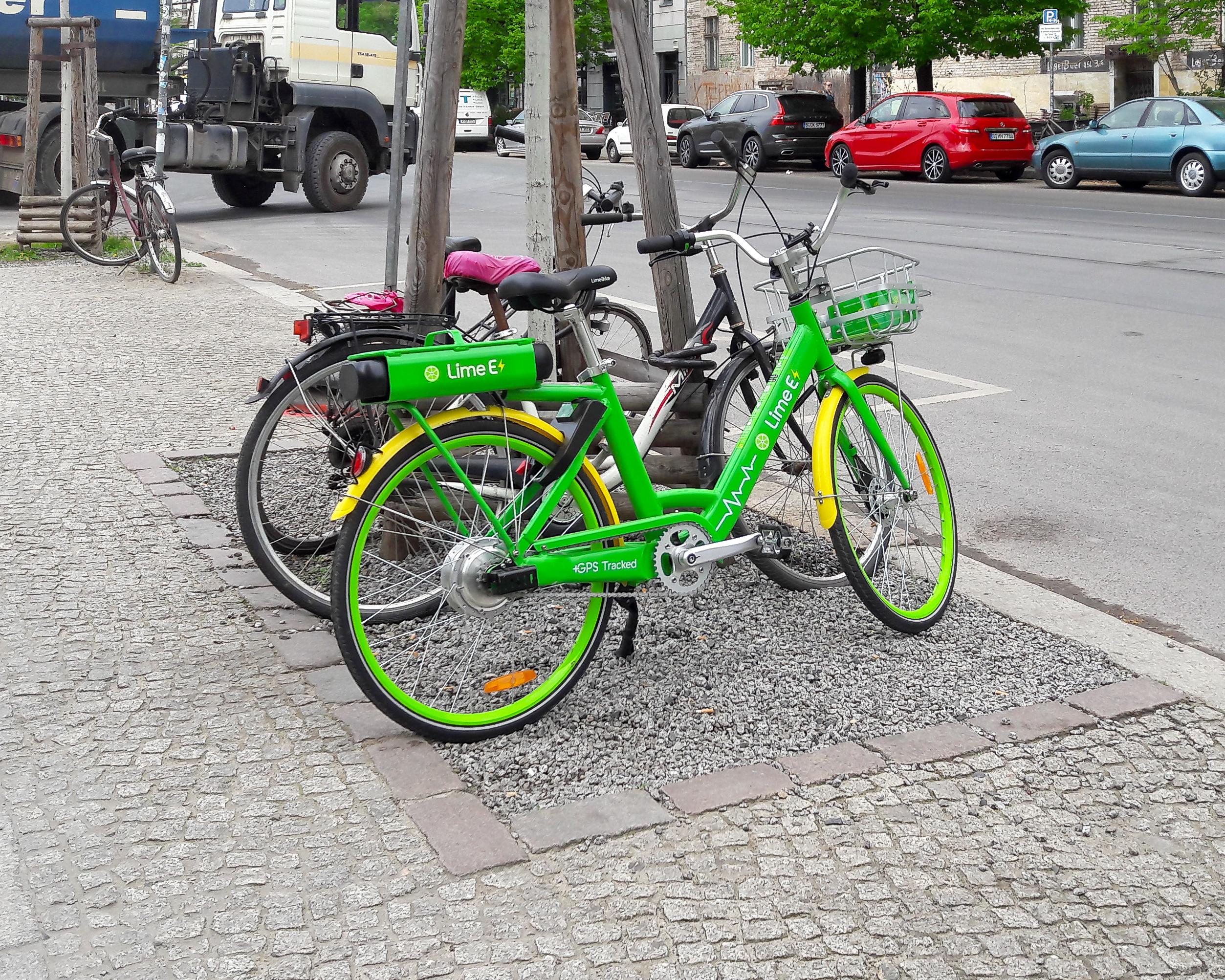 electric bike share